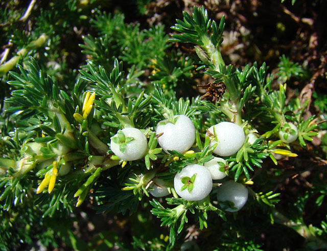 Fruit of a widespead species known as Pearl Fruit in English and Hierba de Perlilla locally. In context at